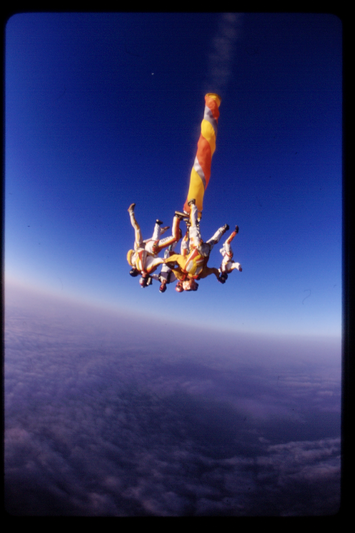 Babylon Freefly team in 2001